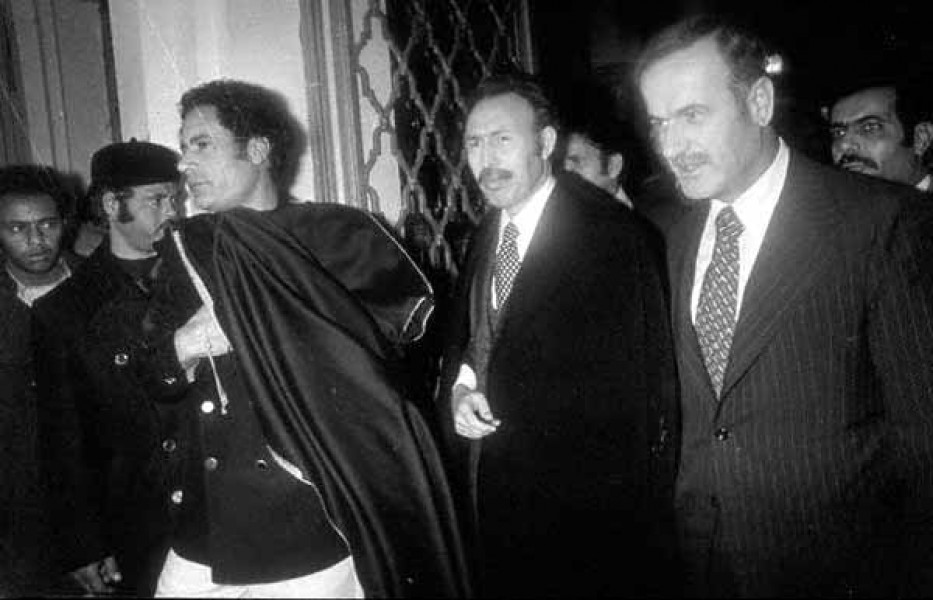 Syria's President Hafez al-Assad attending the Steadfastness and Confrontation Summit in Libya in December 1977 / From left to right: Libyan leader Muammar al-Gaddafi, Algerian President Houarie Boumedienne, Syrian President Hafez al-Assad